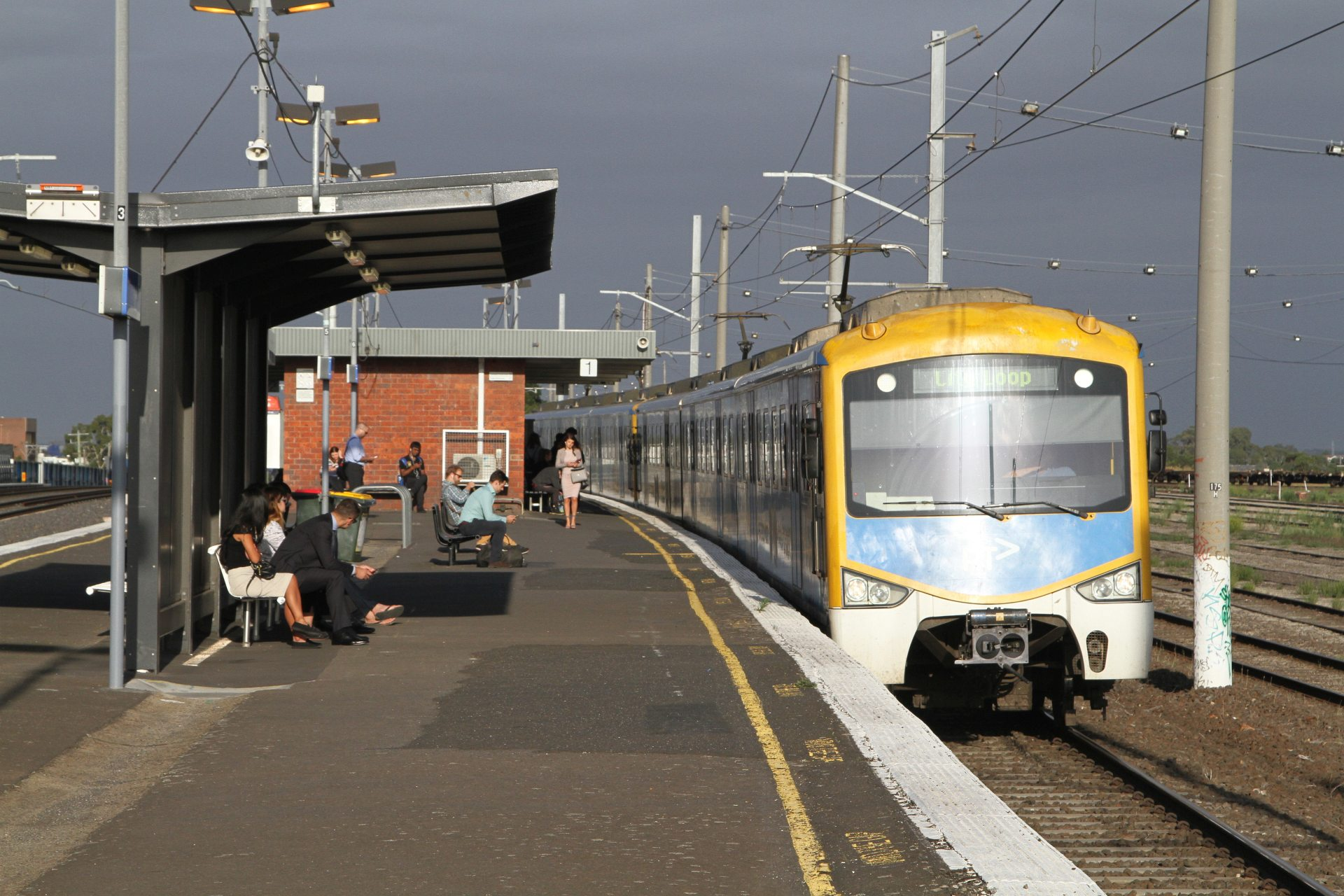 Siemens train operated by Metro Trains Melbourne citybound at Tottenham railway station, Melbourne